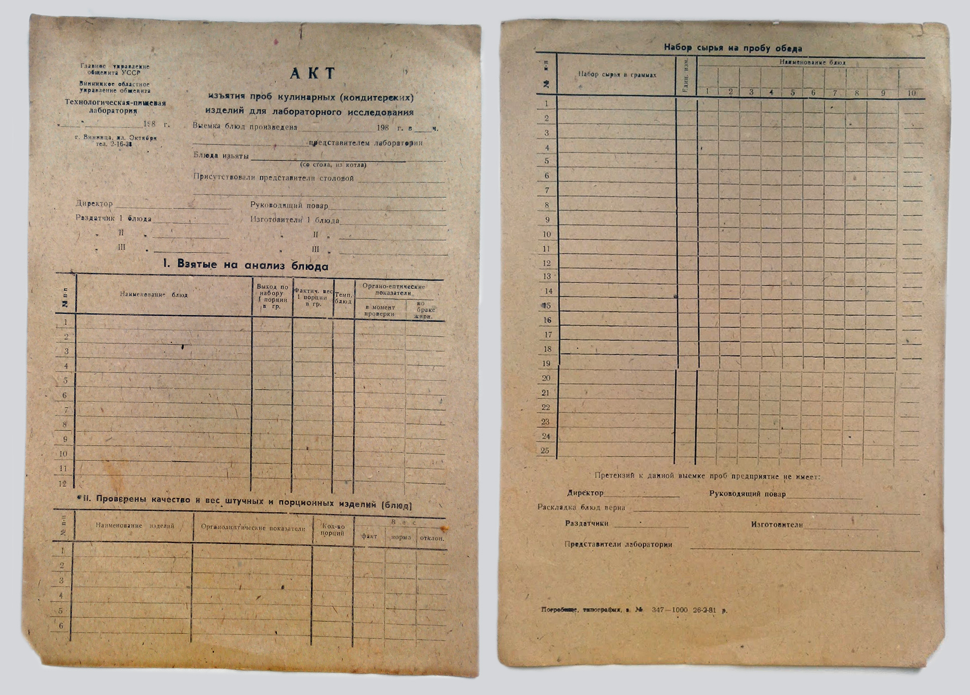 Form for partial food write-off from public food dining rooms for laboratory inspection from USSR times, Vinnytsia